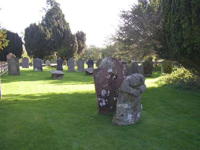 Dacre churchyard The four corners of the original churchyard (smaller than the present one) are marked by four medieval stone bears. They were studied by Chancellor Furguson in 1890, and he believed that they depict a legendary tale, which can be summarised by: bear sleeping, bear attacked by wild cat, bear shakes off cat, bear eats cat. The bear in this photo is the second in the sequence, but the cat has been worn away and we just see the bear looking over its shoulder.